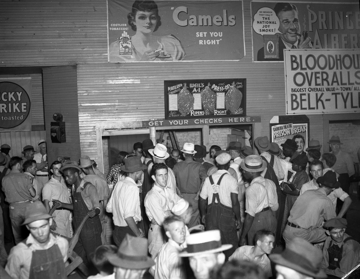 Opening North Carolina Tobacco Markets, Tobacco Warehouse, Rocky Mount, North Carolina, 1938. See NEWS AND OBSERVER (Raleigh) article of August 26, 1938-p.1. From Raleigh News & Observer negative collection, State Archives of North Carolina. COPYRIGHTED IMAGE. PLEASE DO NOT SE WITHOUT EXPRESSED PERMISSION FROM THE N&O.